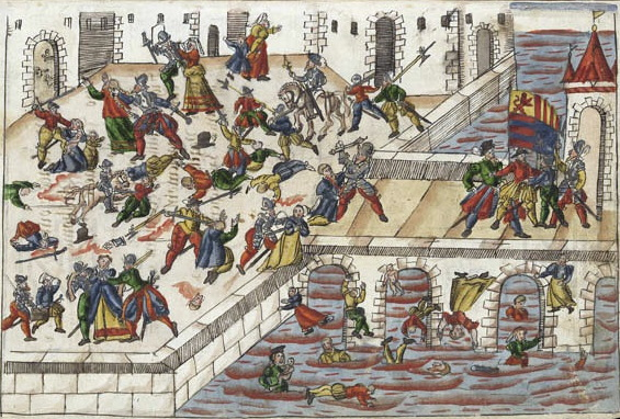 The Siege of Maastricht of 1579. Drawing by Johann Jakob Wick in the collection of the Zentralbibliothek Zürich, Ms_F_28_f129v_f130r.